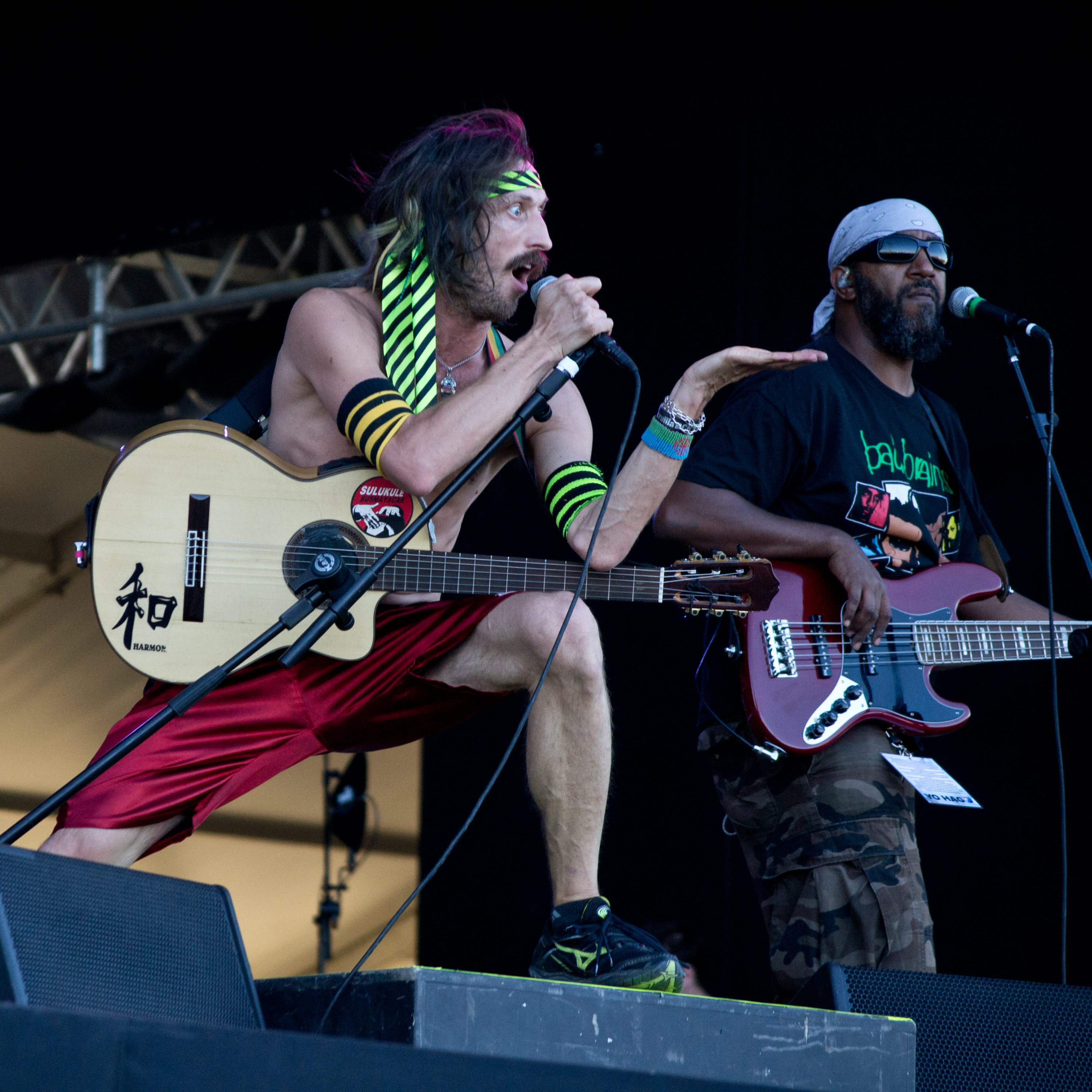 Gogol Bordello in Rock in Rio Madrid 2012.